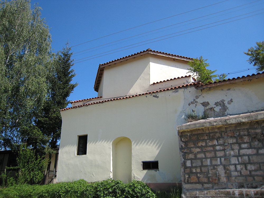 Turkish bath from 1665 built on the remnants of an ancient Roman bath. Berkovitsa Bulgaria